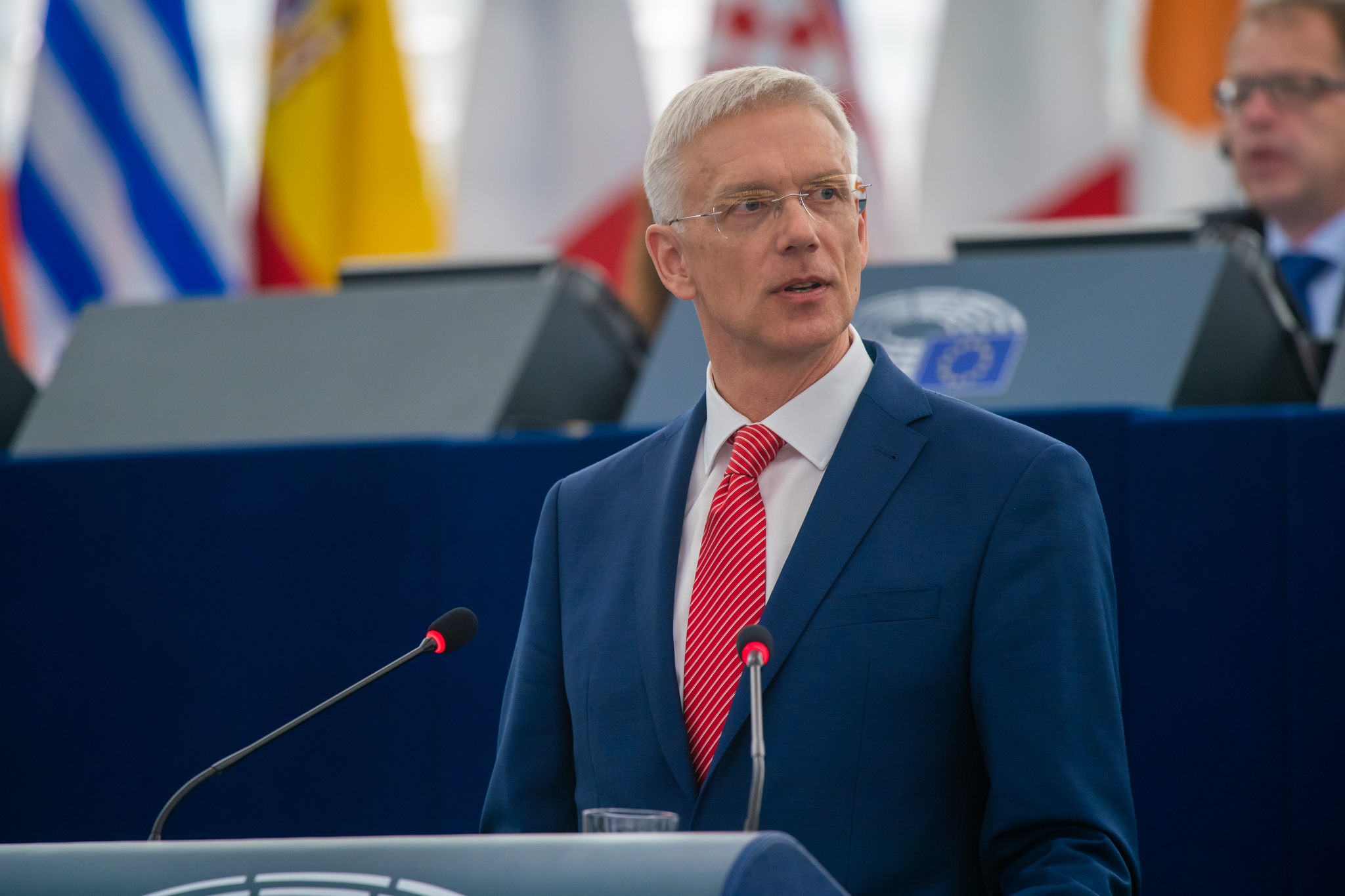 The EU needs to strengthen the basics, Latvian Prime Ministers Krišjānis Kariņš said in the debate on the Future of Europe, on Wednesday. Read our press release here: This photo is free to use under Creative Commons license CC-BY-4.0 and must be credited: "CC-BY-4.0: © European Union 2019 – Source: EP". No model release form if applicable. For bigger HR files please contact: webcom-flickr(AT)